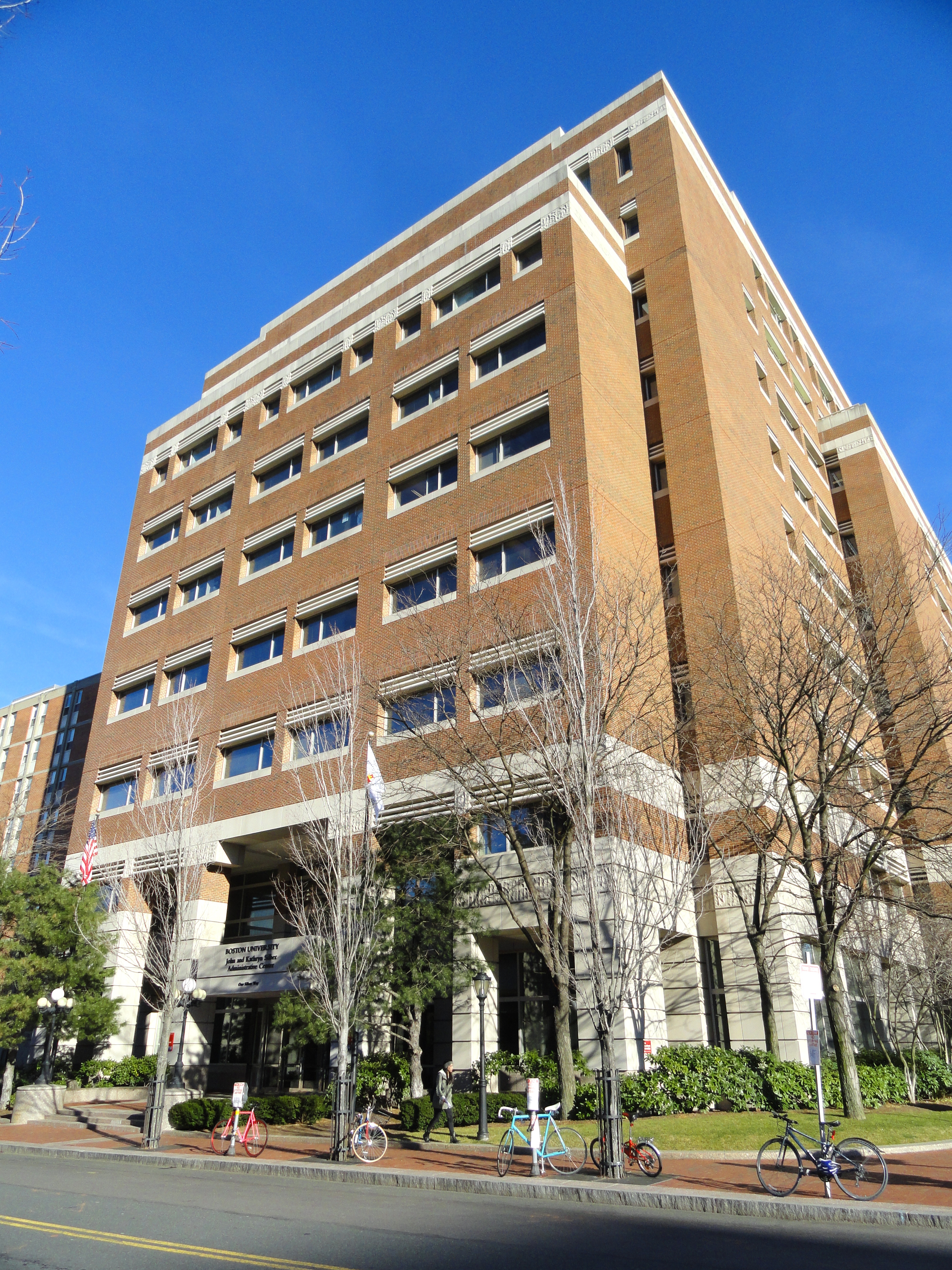 Silber Administrative Center - Boston University, Boston, Massachusetts, USA.